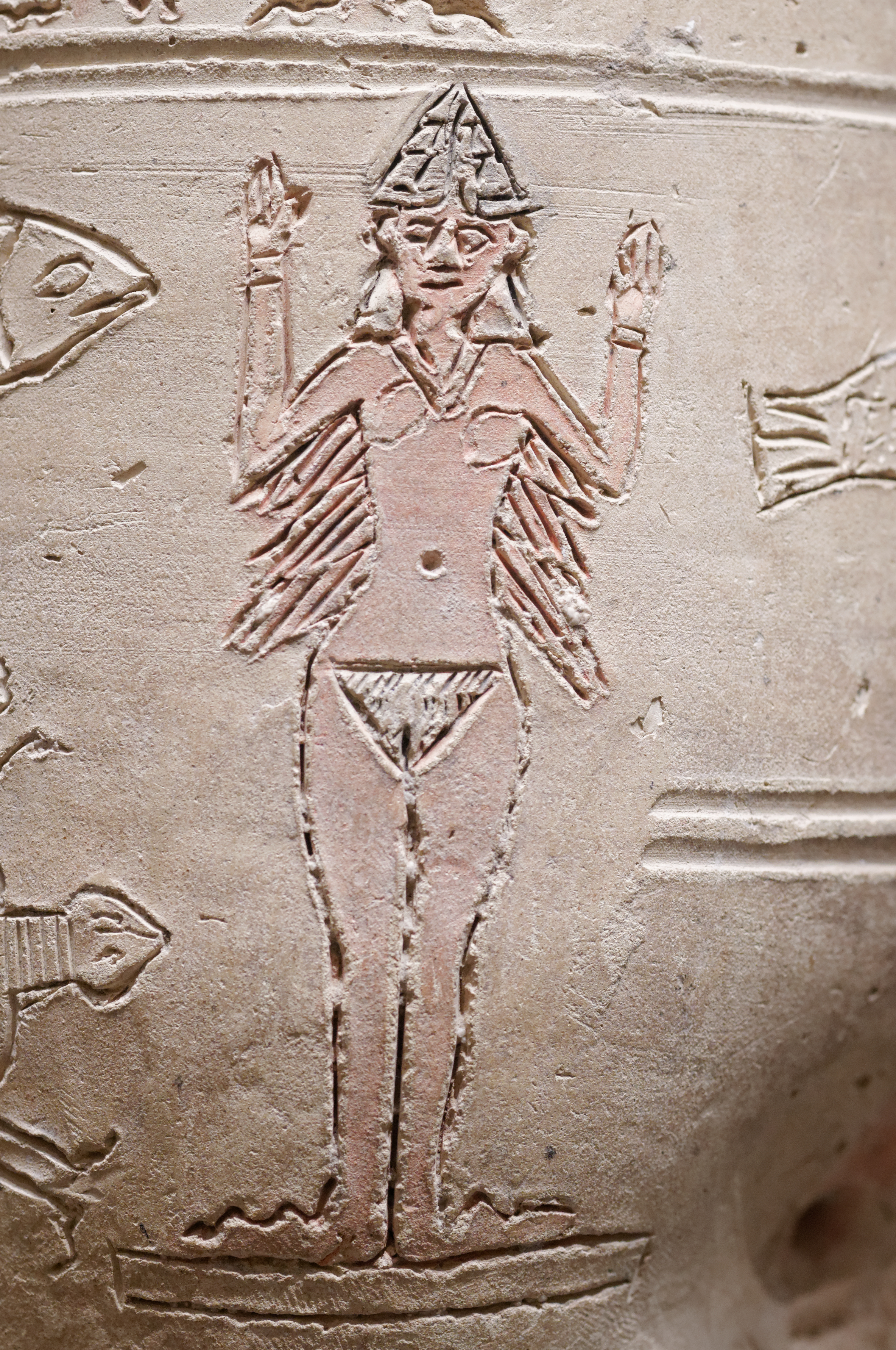 Naked Ishtar wearing the horned tiara, surrounded by birds, fish, a bull and a tortoise.